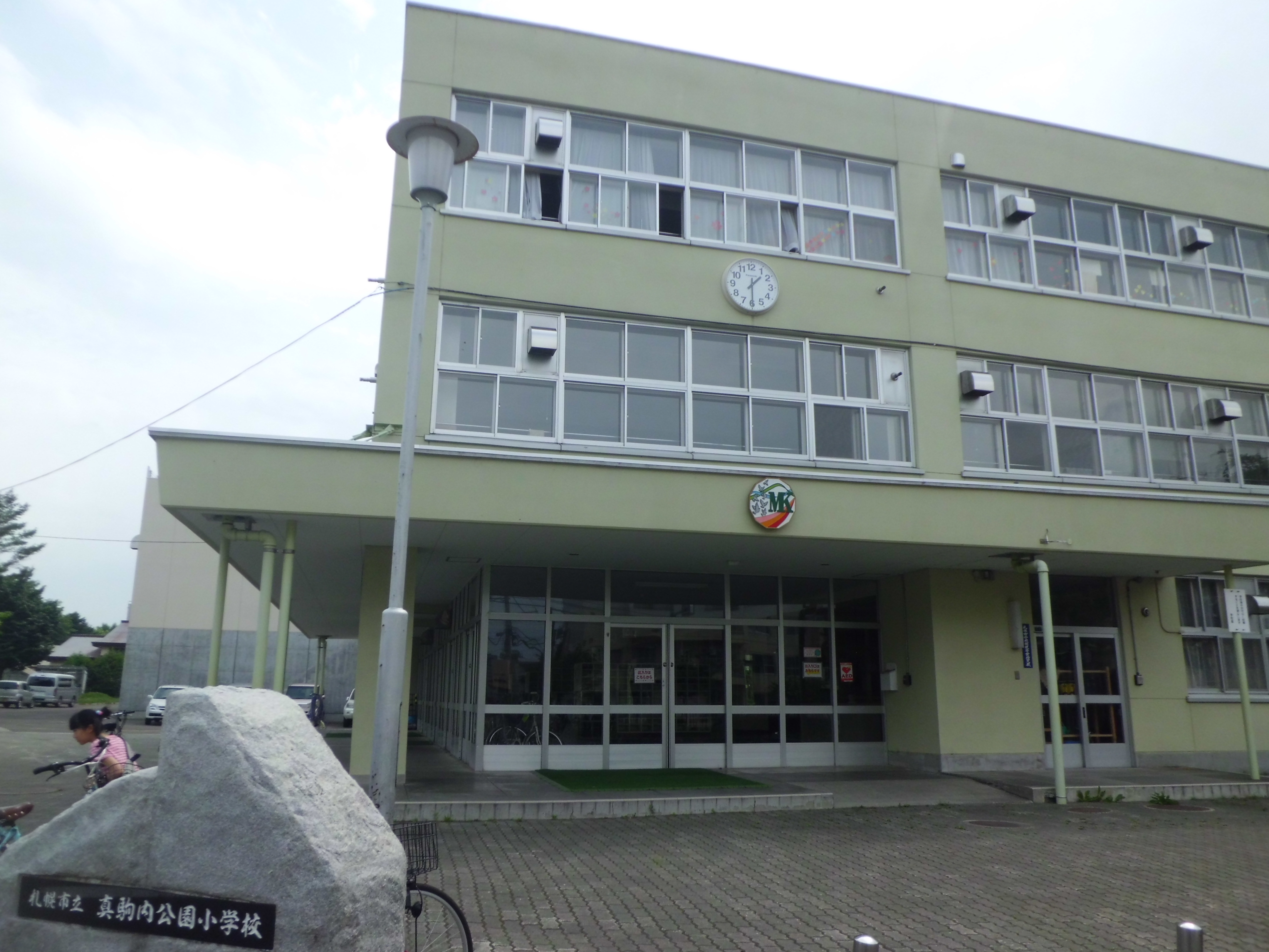 Sapporo City Makomanai Koen Elementary School